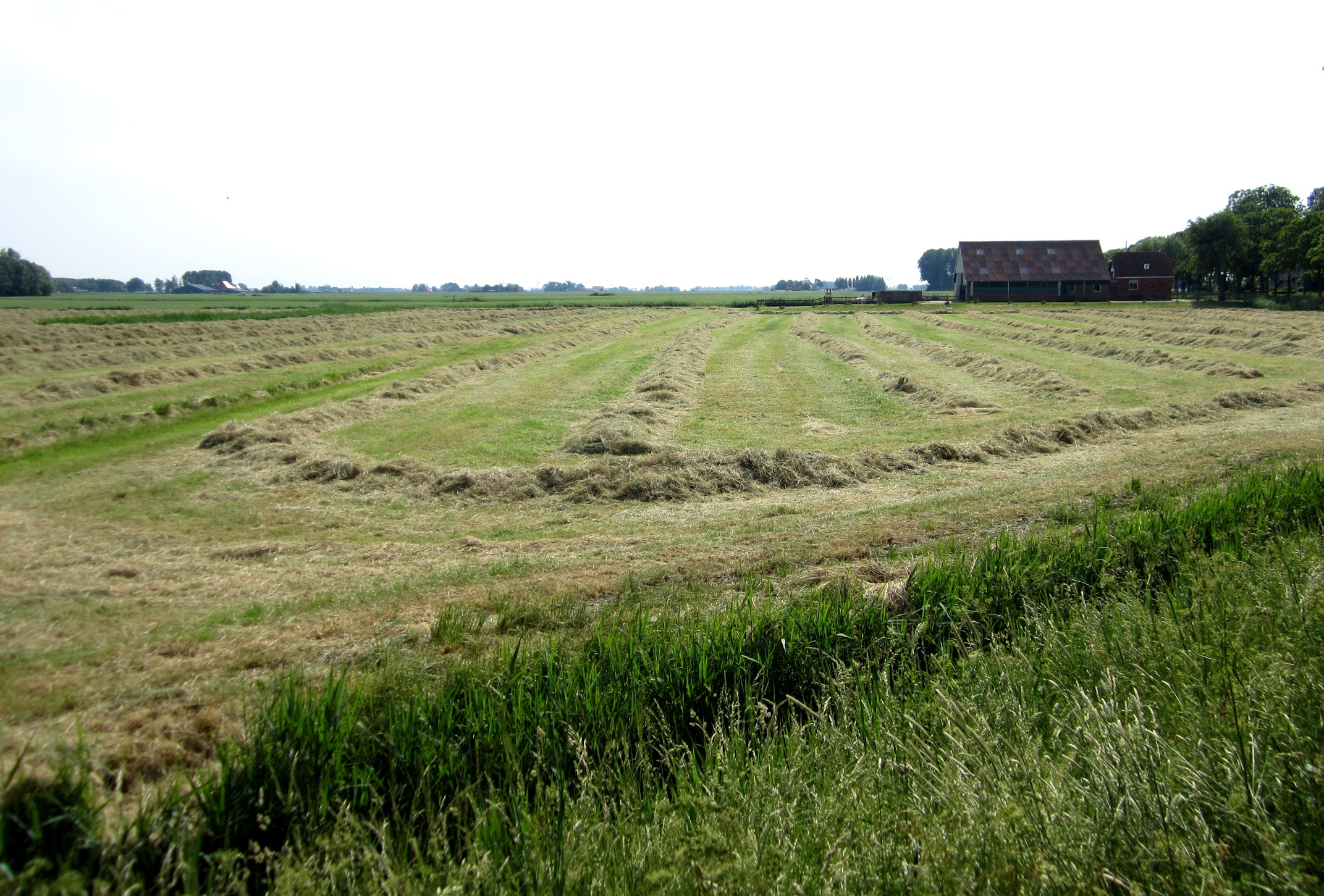 Haymaking near Winsum, Friesland, the Netherlands.